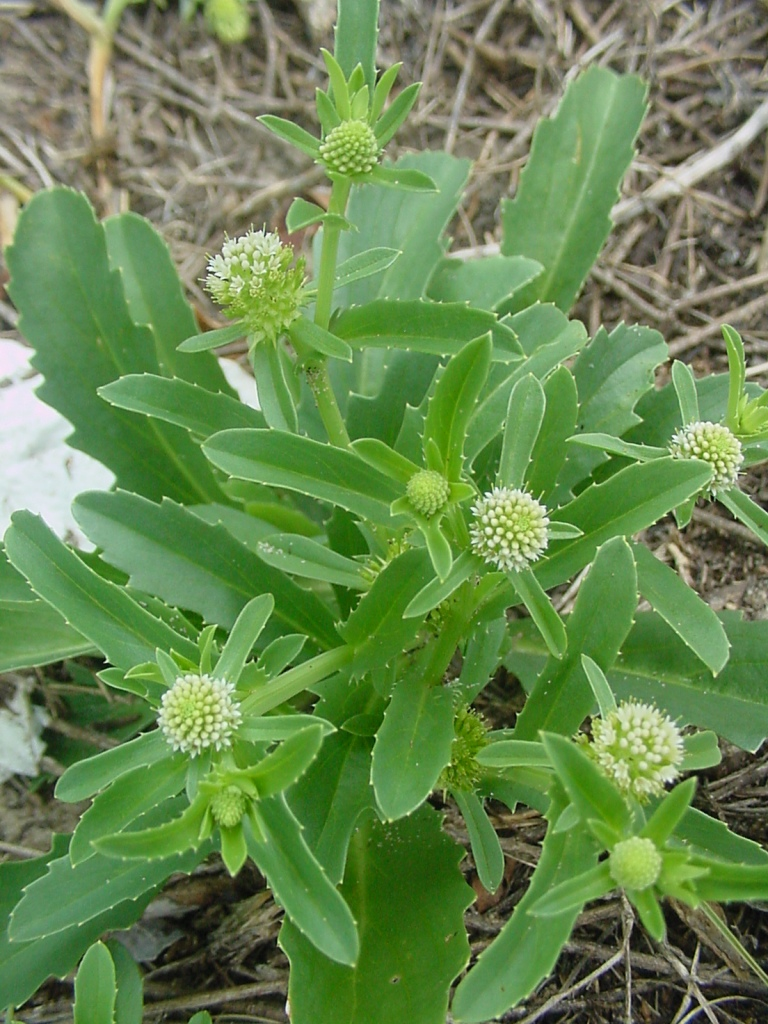 Calycera crassifolia - CALYCERACEAE - Torres - RS - Brasil